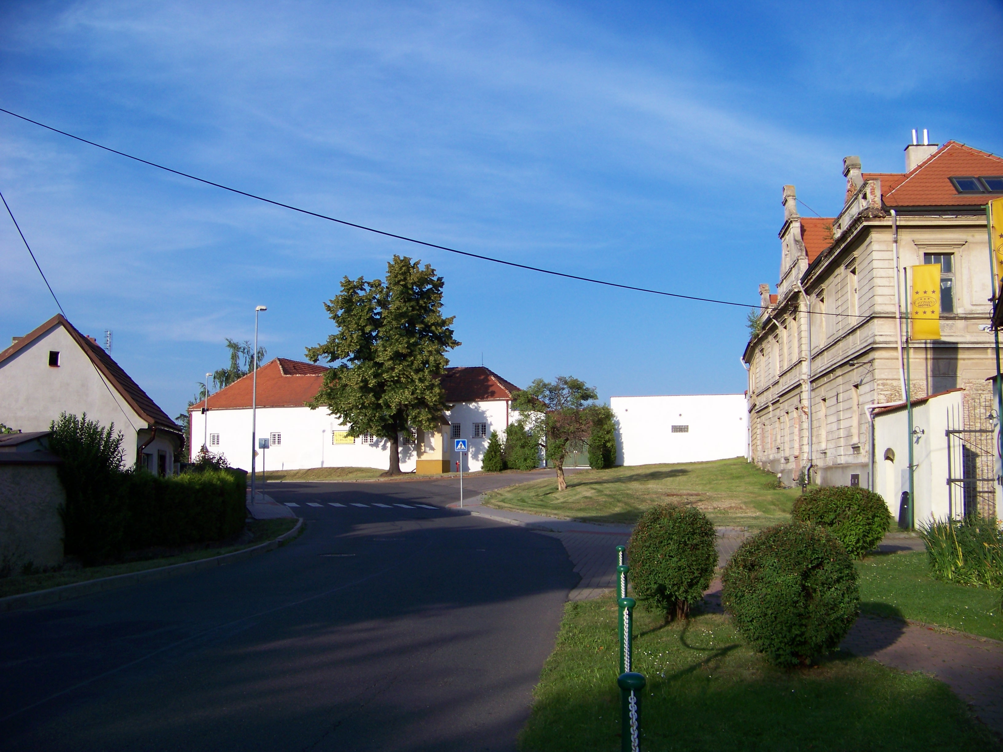 Prague-Horní Počernice. Čertousy, Bártlova street, a farm. - OpenStreetMap(Info)